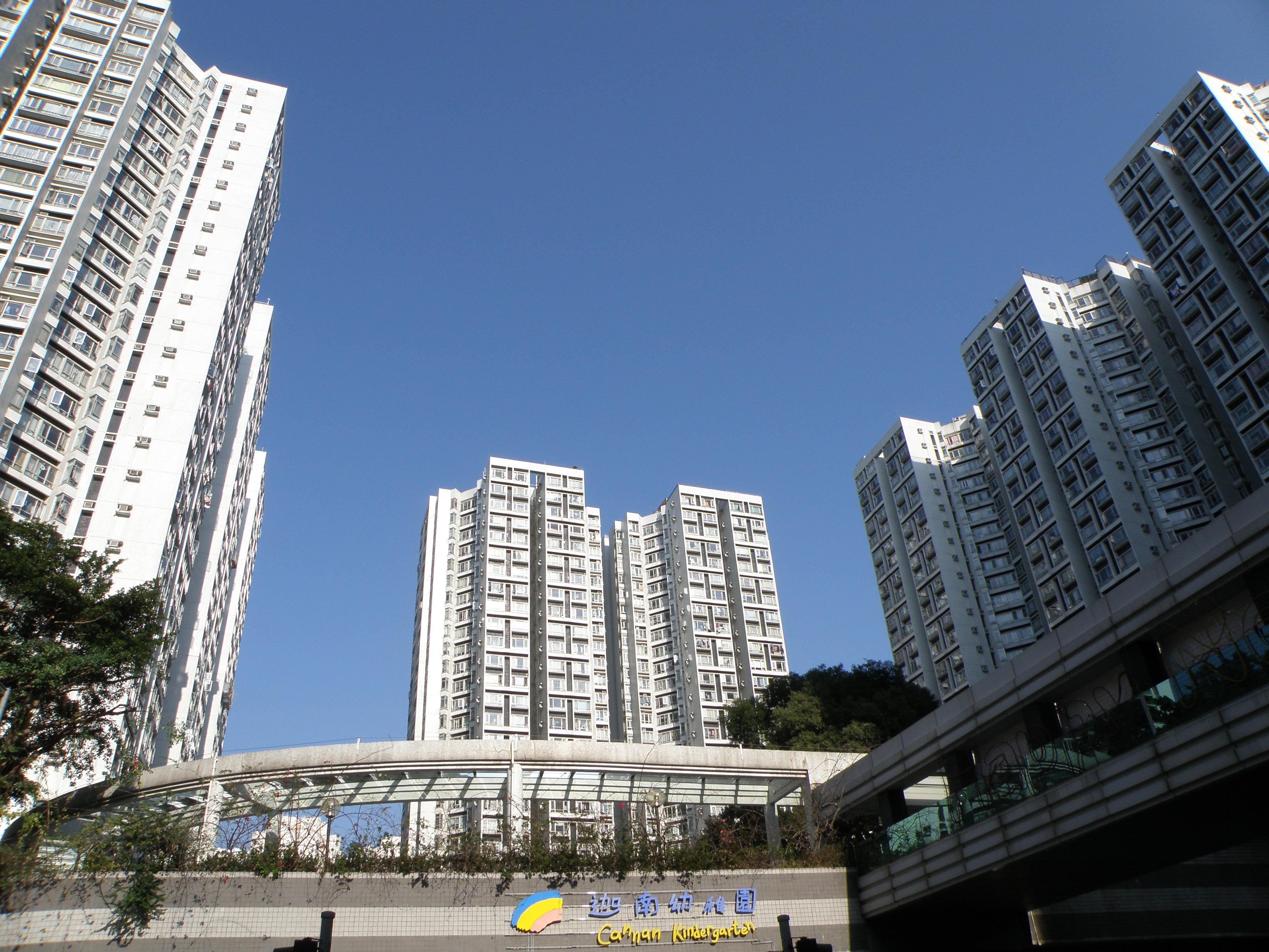 Laguna City in Lam Tin, Hong Kong.